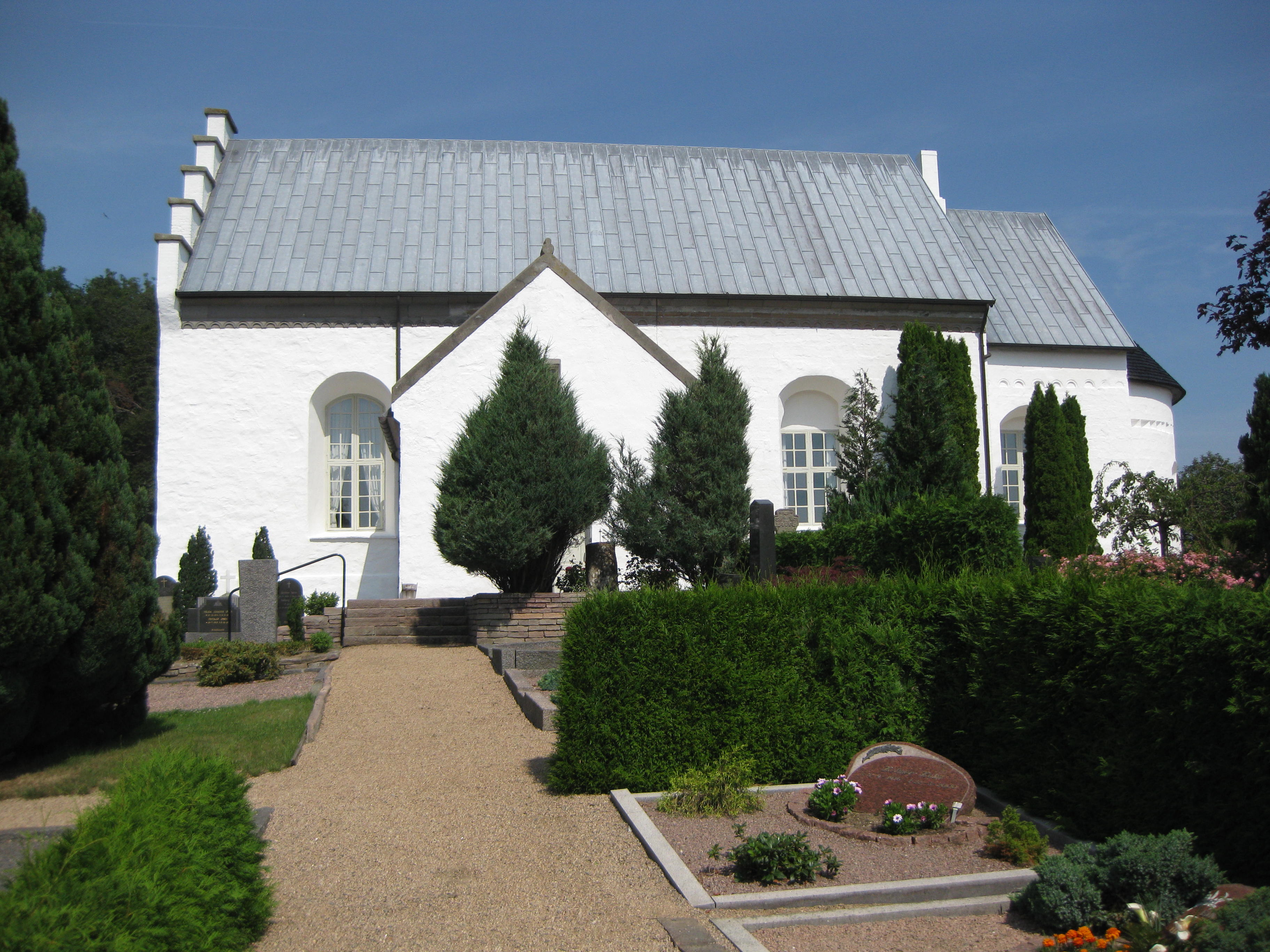 The church "Sankt Povls Kirke" (also named "Sct. Povls Kirke") on the island Bornholm in east Denmark.